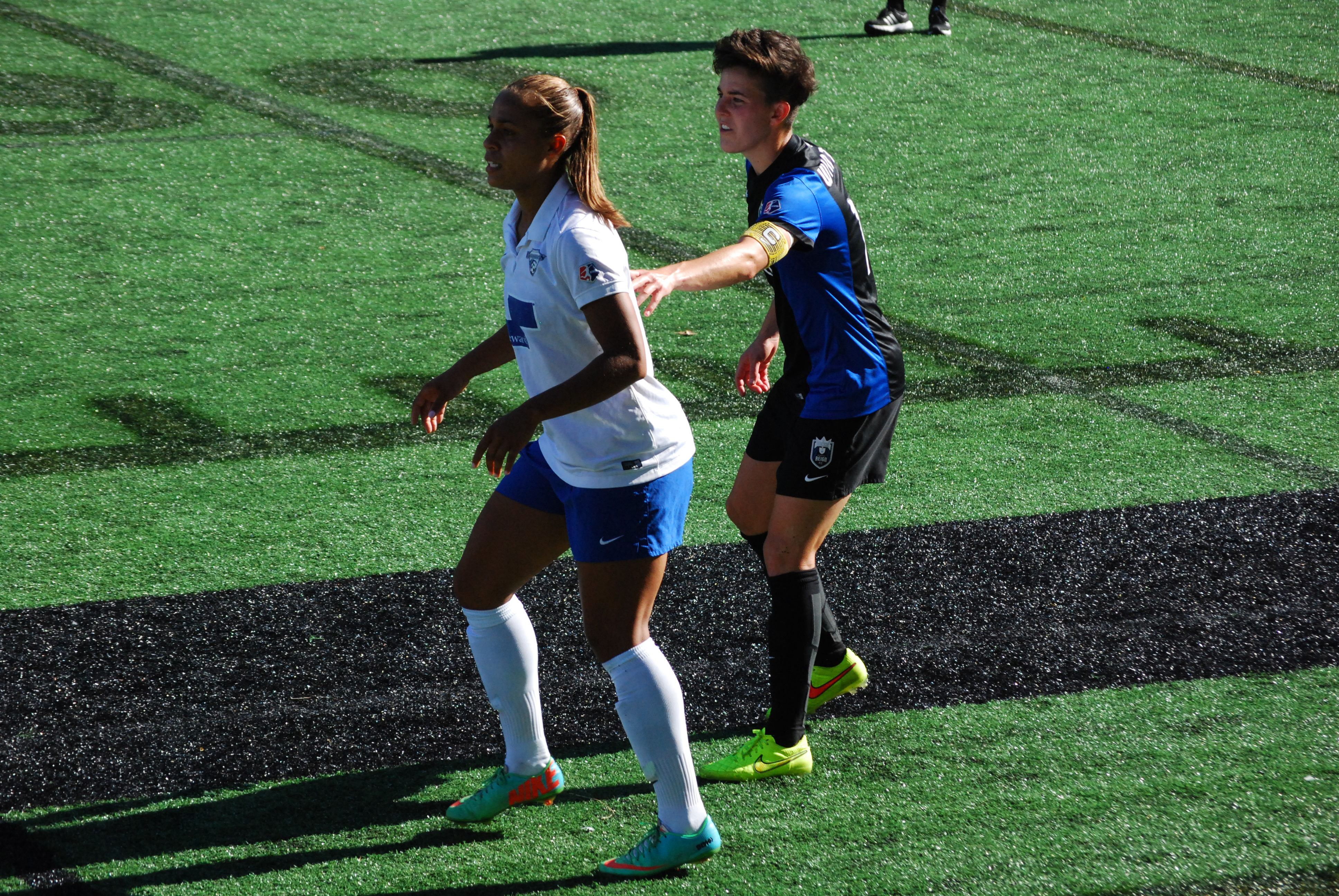 Seattle Reign FC vs Boston Breakers Memorial Stadium, Seattle Center Seattle, WA July 6, 2014